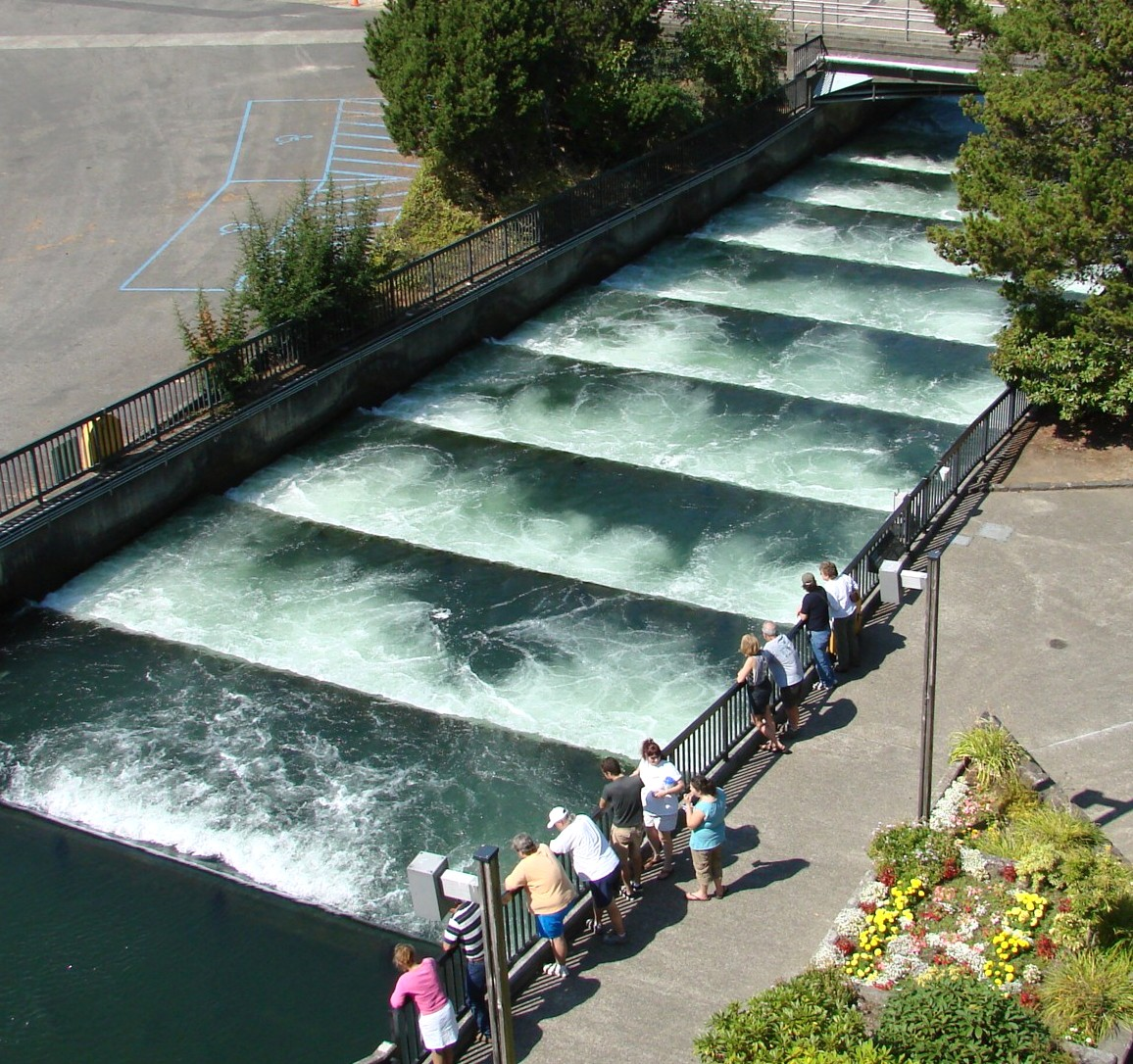 Large pool-and-weir fish ladder at Bonneville Dam on the Columbia River, USA